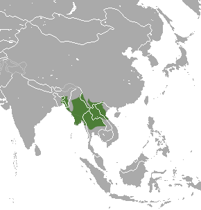 Phayre's Leaf Monkey (Trachypithecus phayrei) range